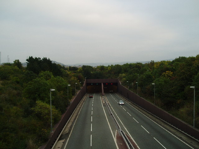 Conwy Road Tunnel. The picture shows the western end of the tunnel under the Conwy estuary.